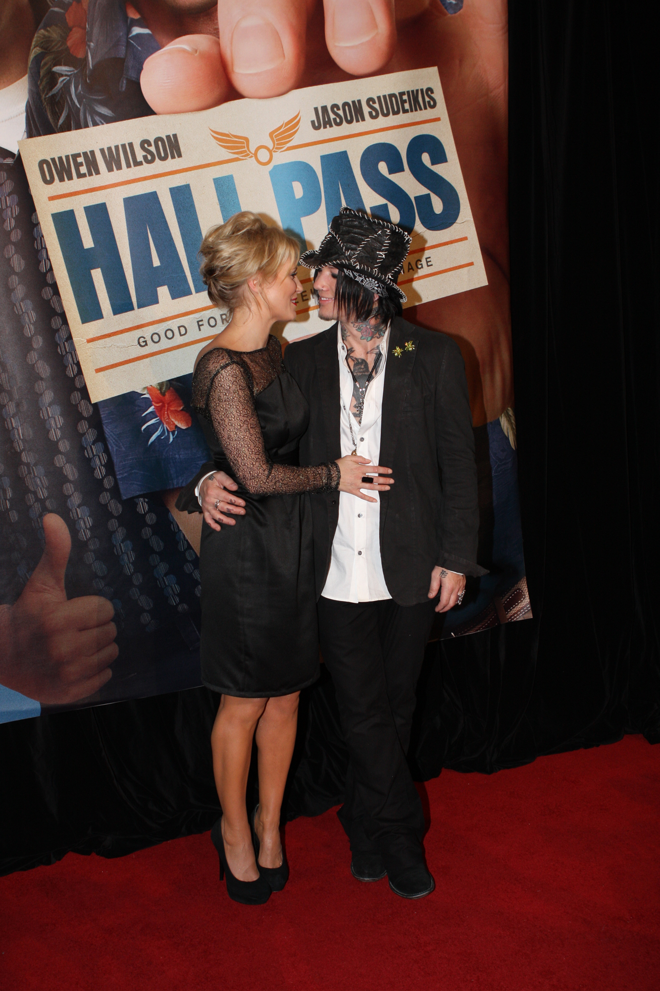 "DJ Ashba" "Nicky Whelen"